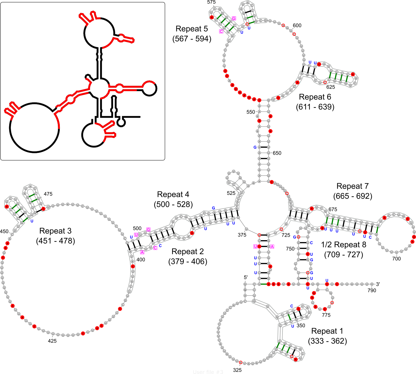 Structure model of the Xist lncRNA repA region adapted from Fang R, Moss WN, Rutenberg-Schoenberg M, Simon MD (2015) Probing Xist RNA Structure in Cells Using Targeted Structure-Seq. PLoS Genet 11(12): e1005668.